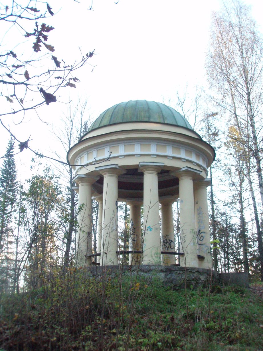 The folly Dianatemplet in Träskända garden